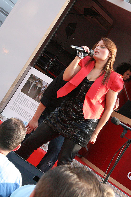 AnnaGrace live in Hasselt